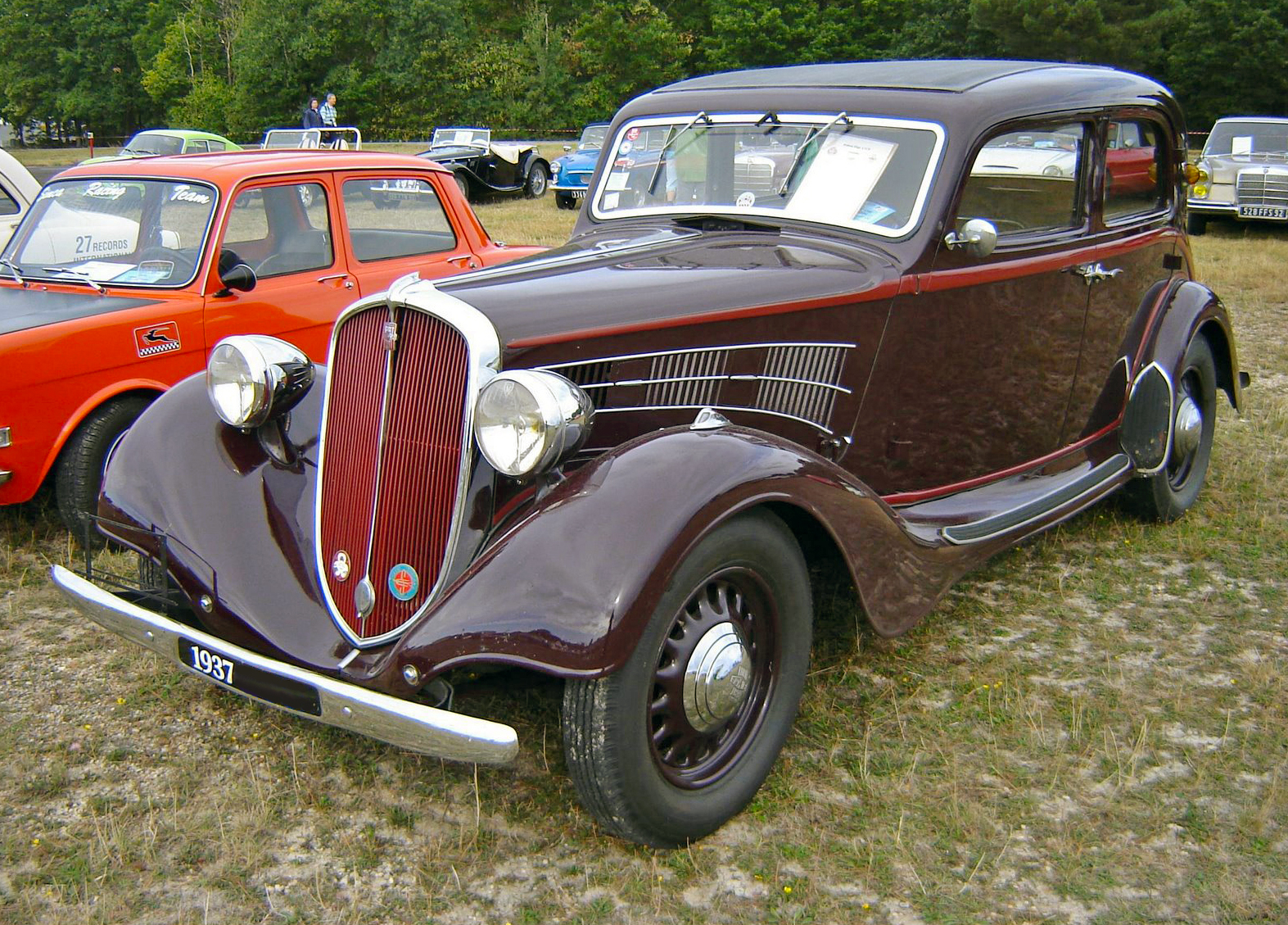 1937 Simca-Fiat 11CV Berline 5-places at the Autodrome de Linas-Montlhéry, 2009